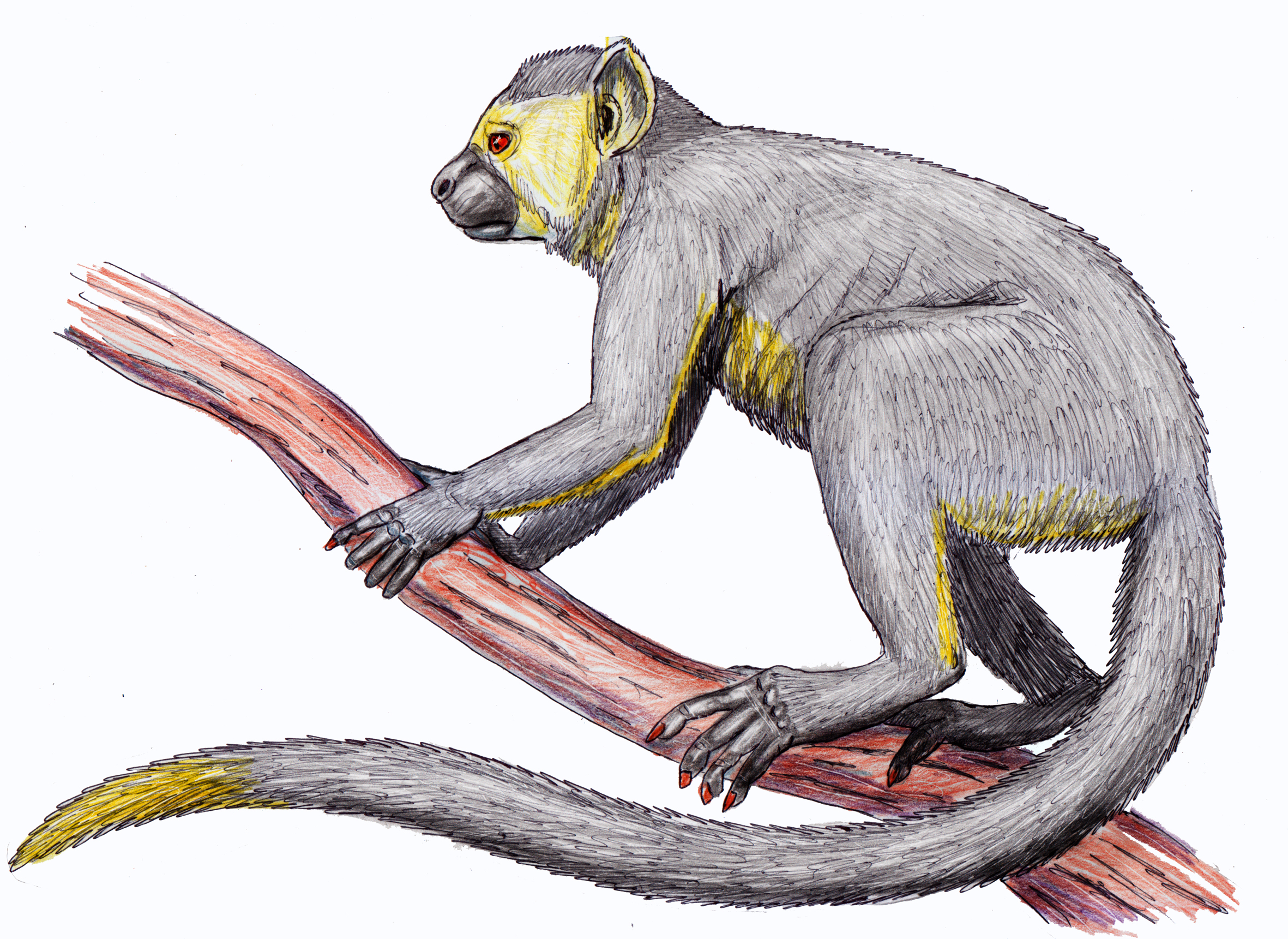 Eosimias sinensis, from Eocene of China